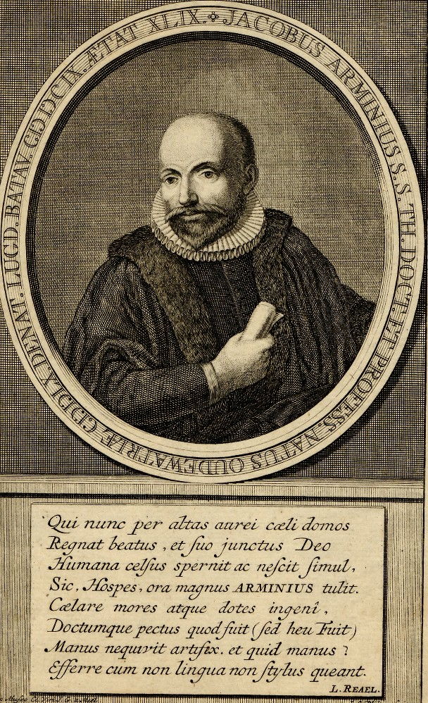 Portrait of Jacobus Arminius (1560-1609) from the Dutch portrait collection of the Andover-Harvard Theological Library, Harvard Divinity School. From an engraving by J. C. Philips and J. G. Meet. From the Seventeenth Century.